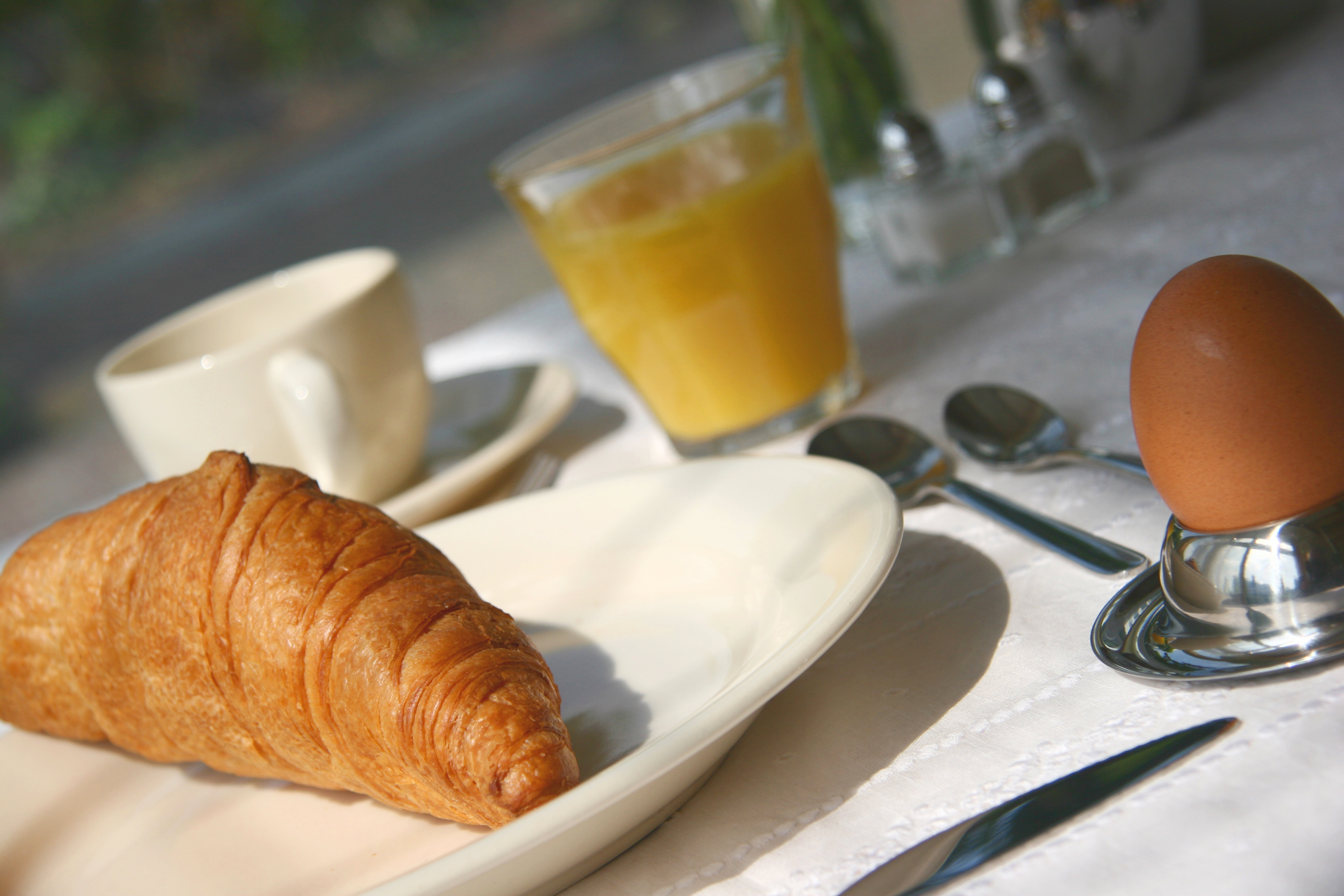 Breakfast